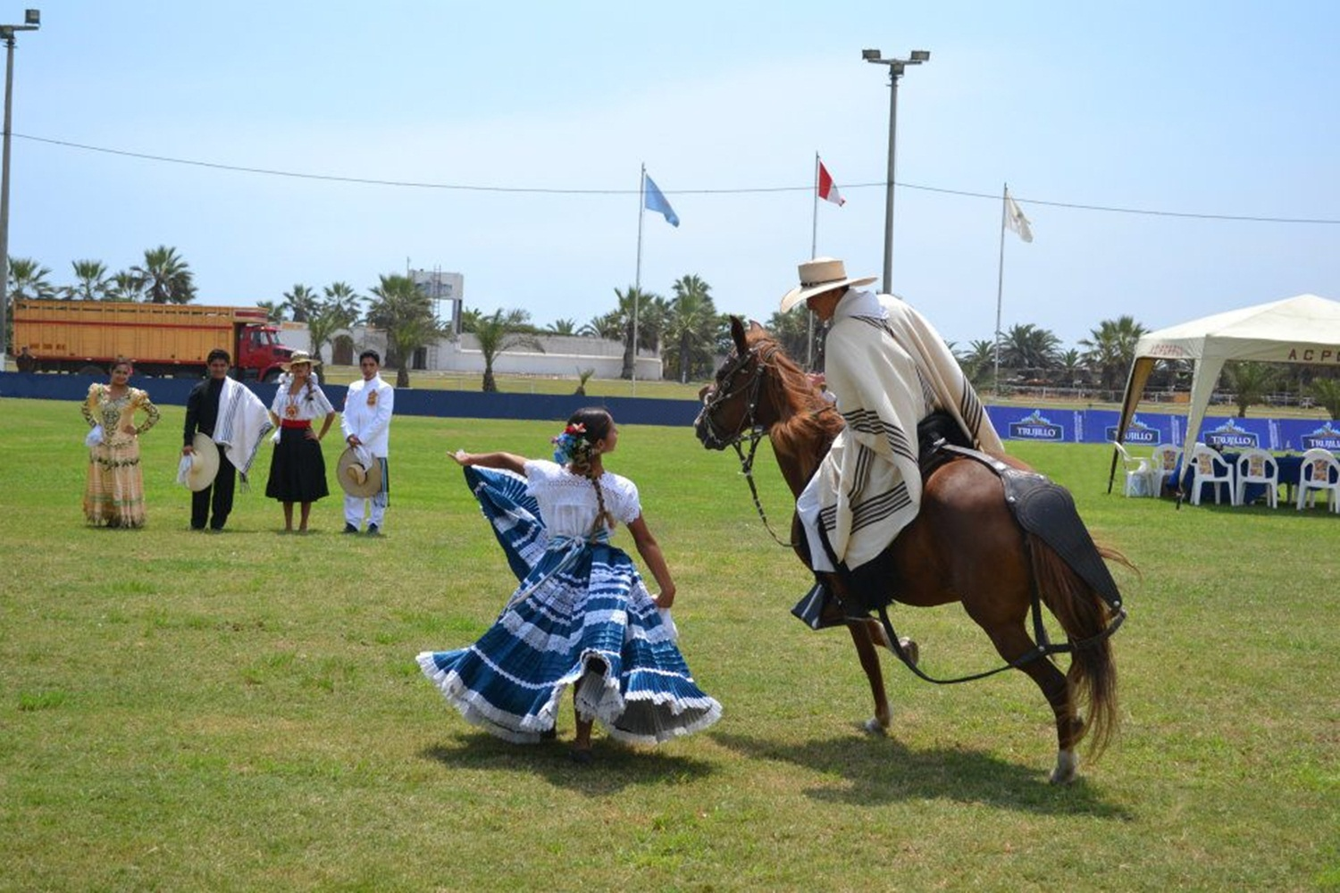 Caballo De Paso en Víctor Larco Herrera